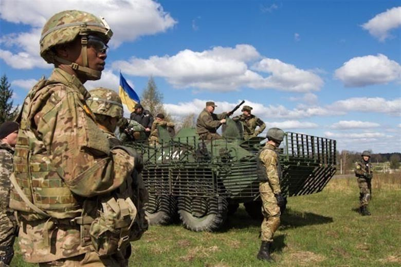 Soldiers from the U.S. Army's 173rd Airborne Brigade Combat Team and the Ukrainian National Guard's 1st Battalion, 3029th, take a break next to a BTR fighting vehicle, April 22, 2015, during Exercise Fearless Guardian in Yavoriv, Ukraine. The 173rd Airborne Brigade Combat Team trained several battalions of Ukrainian guardsmen at the request of the Ukrainian government. (Photo Credit: Sgt. Alexander Skripnichuk).